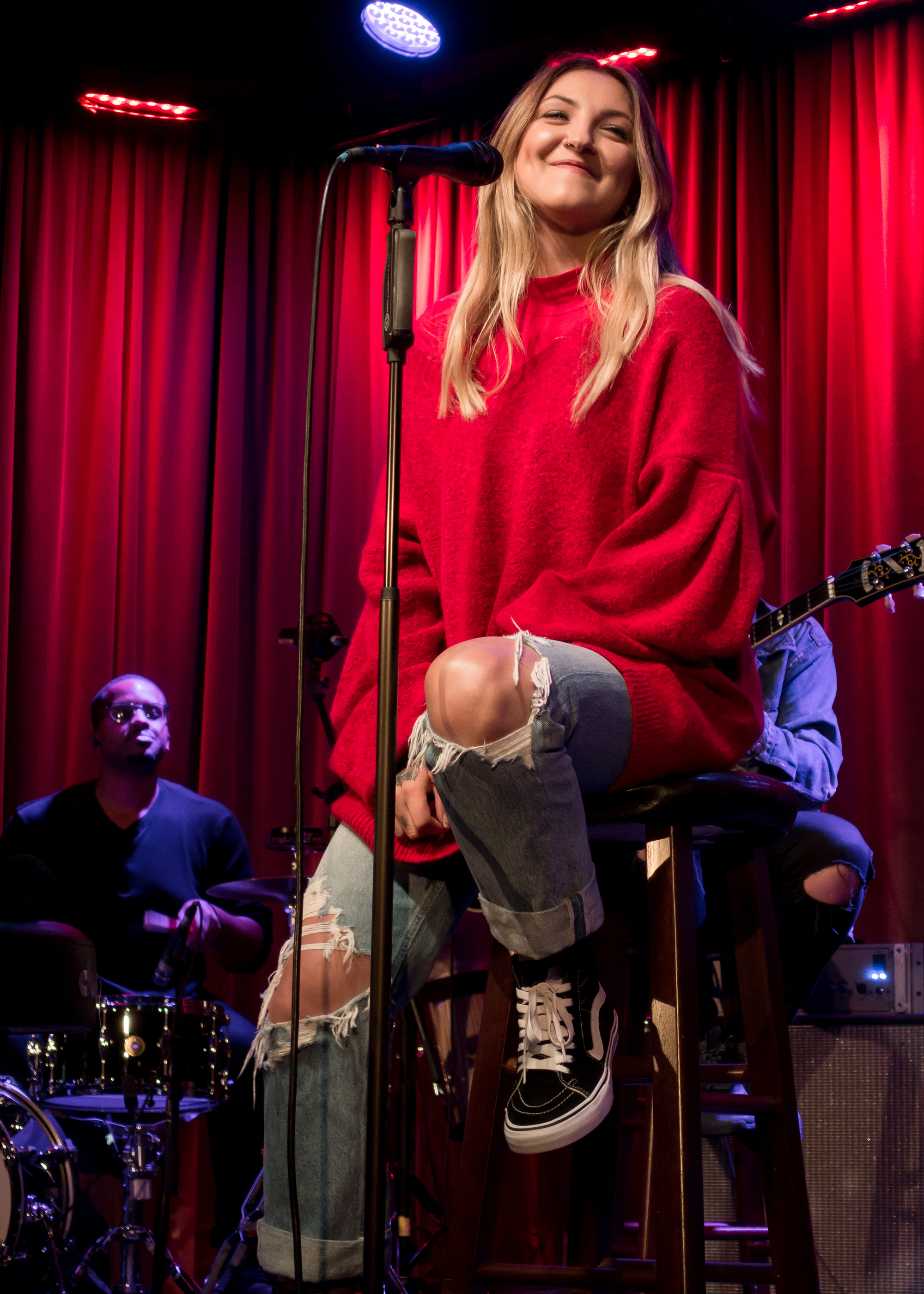 Julia Michaels interview and performance live at the Grammy Museum in downtown Los Angeles, California, on Thursday, November 2, 2017.